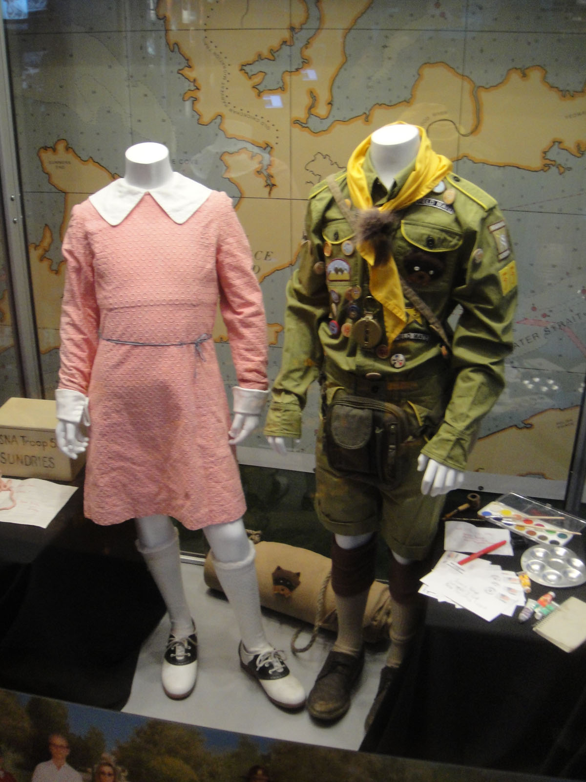 Moonrise Kingdom props at Arclight Hollywood.